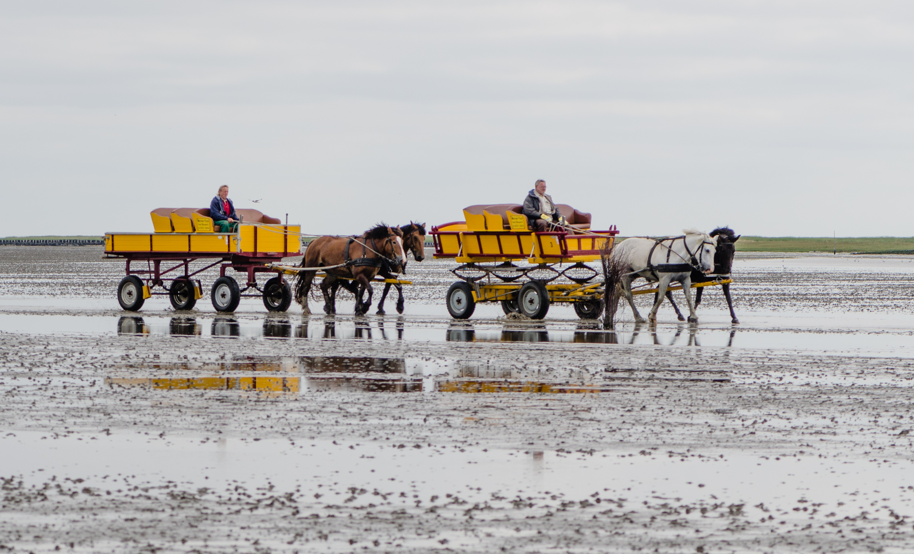 Mudflat carriages bringing tourist from Sahlenburg to Neuwerk Island